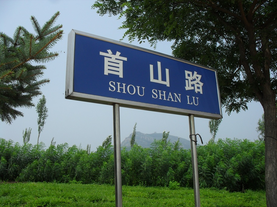 a picture of a shou shan lu street sign featuring the facade of shou shan in the background